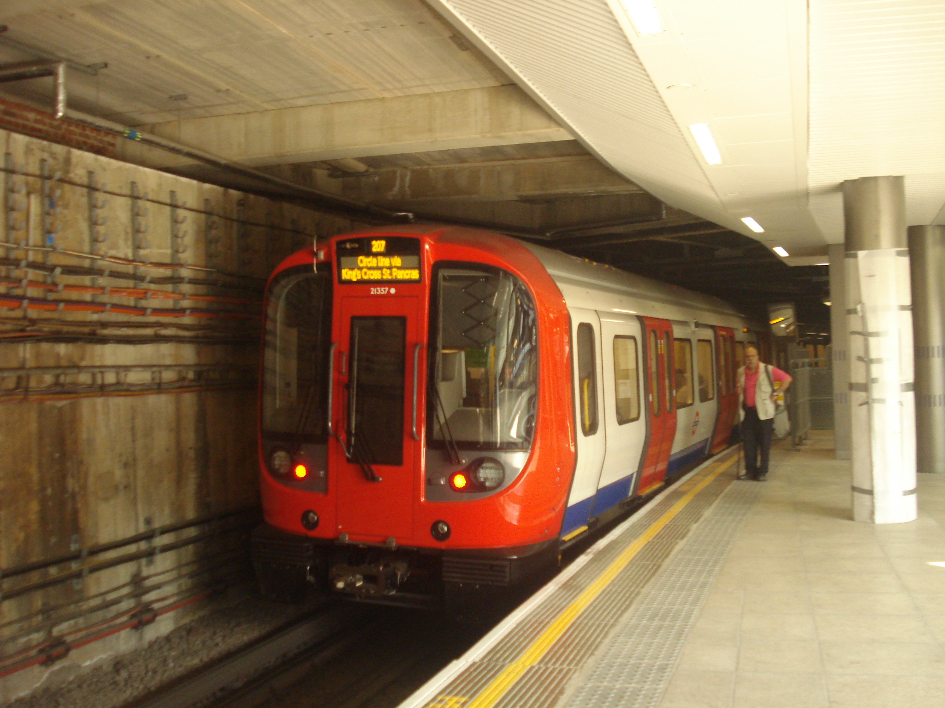 S7 21357 on Circle Line, Paddington